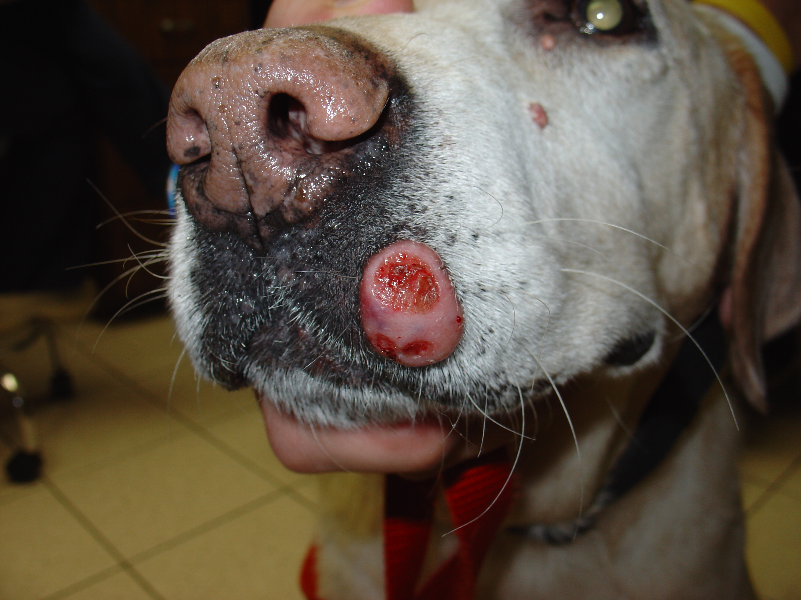 Ulcerated mast cell tumor on the lip of a 13 year old Labrador Retriever.